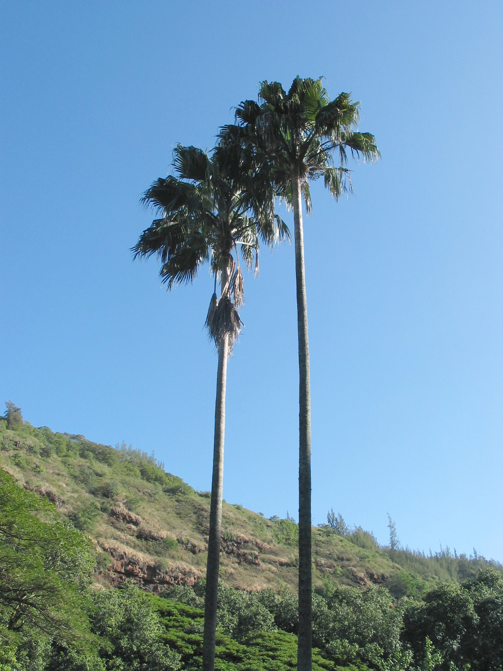 [syn. Pritchardia aylmer-robinsonii] Loulu Arecaceae Endemic to the Hawaiian Islands Oʻahu (Cultivated); Niʻihau form